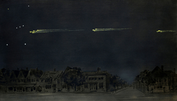 1913 Great Meteor Procession in Toronto. The caption on the frame of the painting misspells Hahn’s first name, reading: "Meteoric Display of February 9, 1913, as seen near High Park. Drawn by Gustave Hahn". Hahn estimated that the fireballs passed about halfway between Rigel and the Belt of Orion. The painting, formerly on display at the David Dunlap Observatory, is now housed in the University of Toronto Archives.